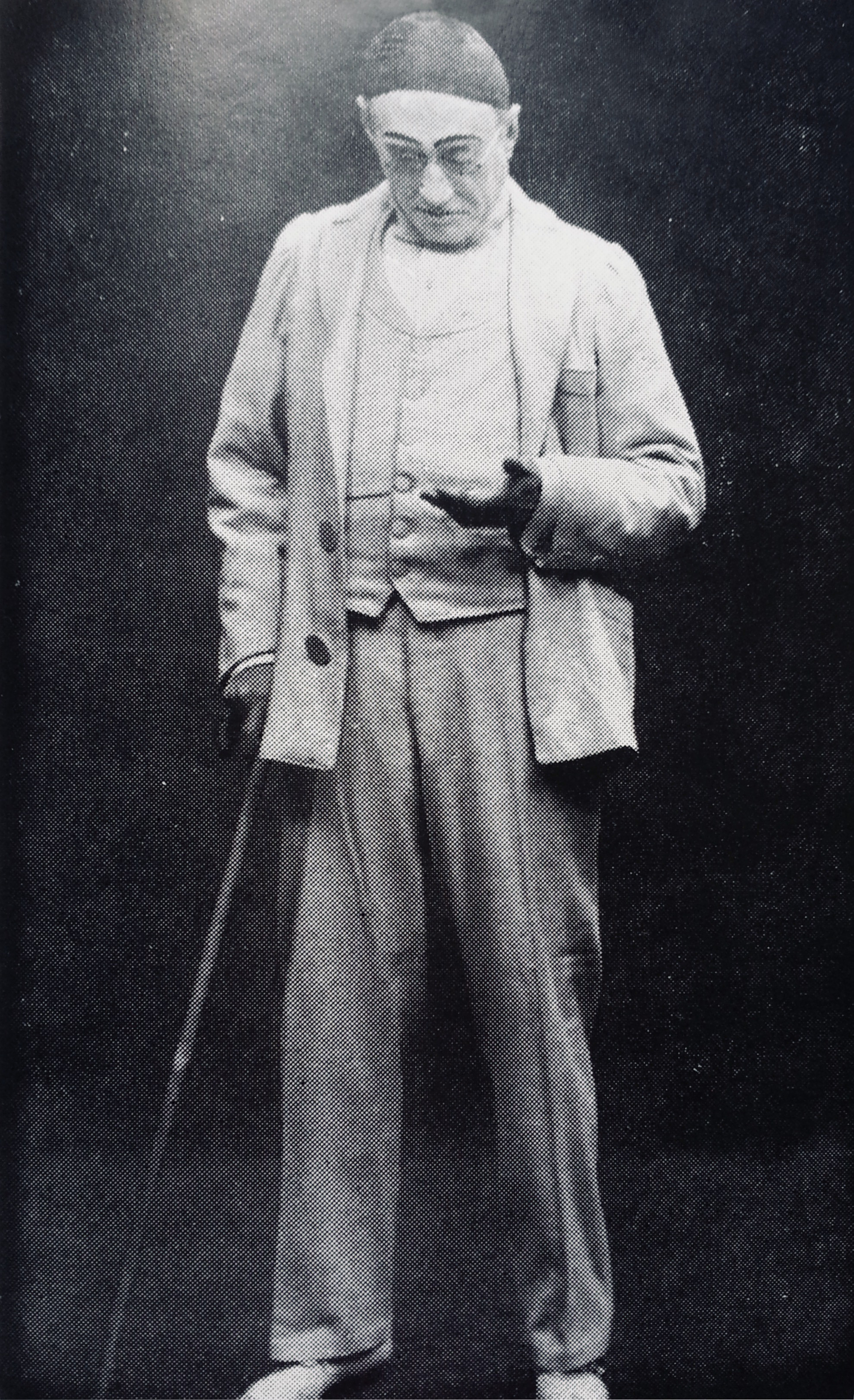 Photo by studio "Walery, Paris" of Georges Wague as Pere Pierrot, consulting his watch, in 1907 film of "L'Enfant prodigue" by Michel Carre fils.